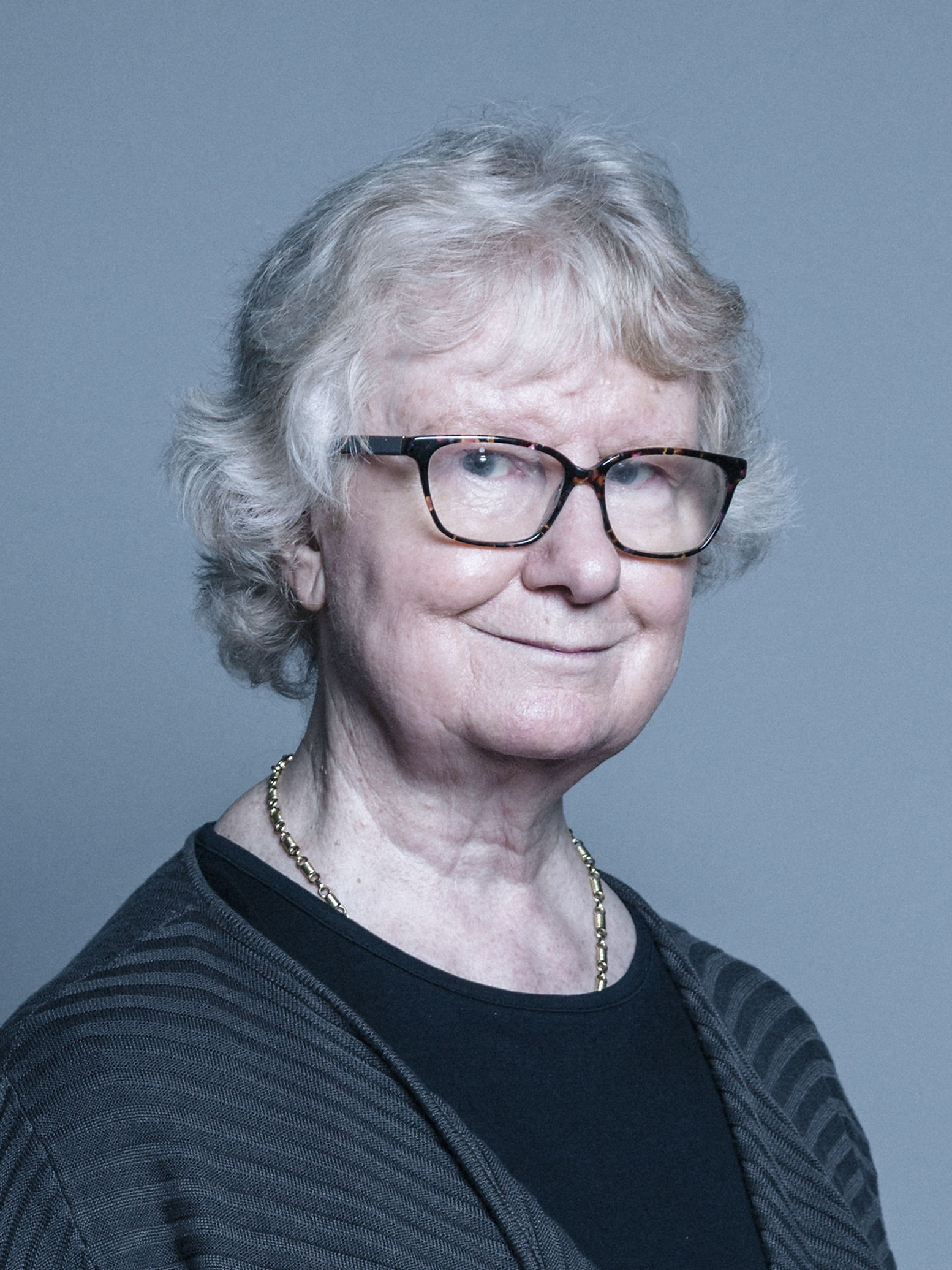 Official portrait of Baroness Donaghy